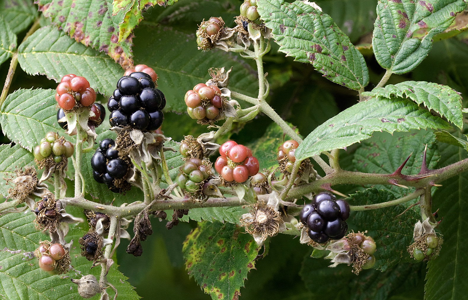 The blackberry is an aggregate fruit from a bramble bush, genus Rubus in the rose family Rosaceae. It is a widespread, and well known group of several hundred species, many of which are closely related apomictic microspecies native throughout the temperate Northern hemisphere.